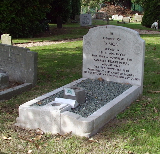 Simon (ca.1947 - 28 November 1949) of HMS Amethyst; veteran of the Yangtze Incident, 1949, receiving the PDSA's Dickin Medal, the animal V.C. Despite being badly injured in action, he carried-on under fire, ridding HMS Amethyst of rats; particularly Mao-Tse-Tung, a giant rat that had evaded all human attempts at capture. Surviving action and returning to England, he died in quarantine. Simon was buried with naval honours at the Ilford Animal Cemetery, attended by the entire crew of HMS Amethyst and hundreds of mourners. He is commemorated with a bush planted in his honour in the Yangtze Incident Grove at the National Memorial Arboretum in Staffordshire. Image still from a video taken at 2pm. on 01 Sept. 2010 at Ilford Animal Cemetery. Camcorder: Sony HDR-HC7E, cropped and processed in Photoshop CS2 on 02 September 2010.